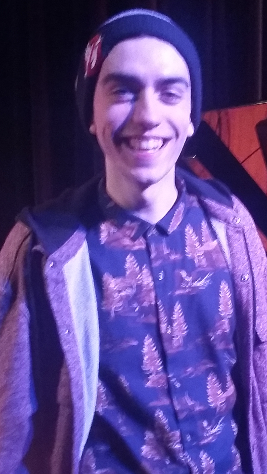 Élie Dupuis photographed in Montréal, Québec, Canada at the Mercier Culture Centre.